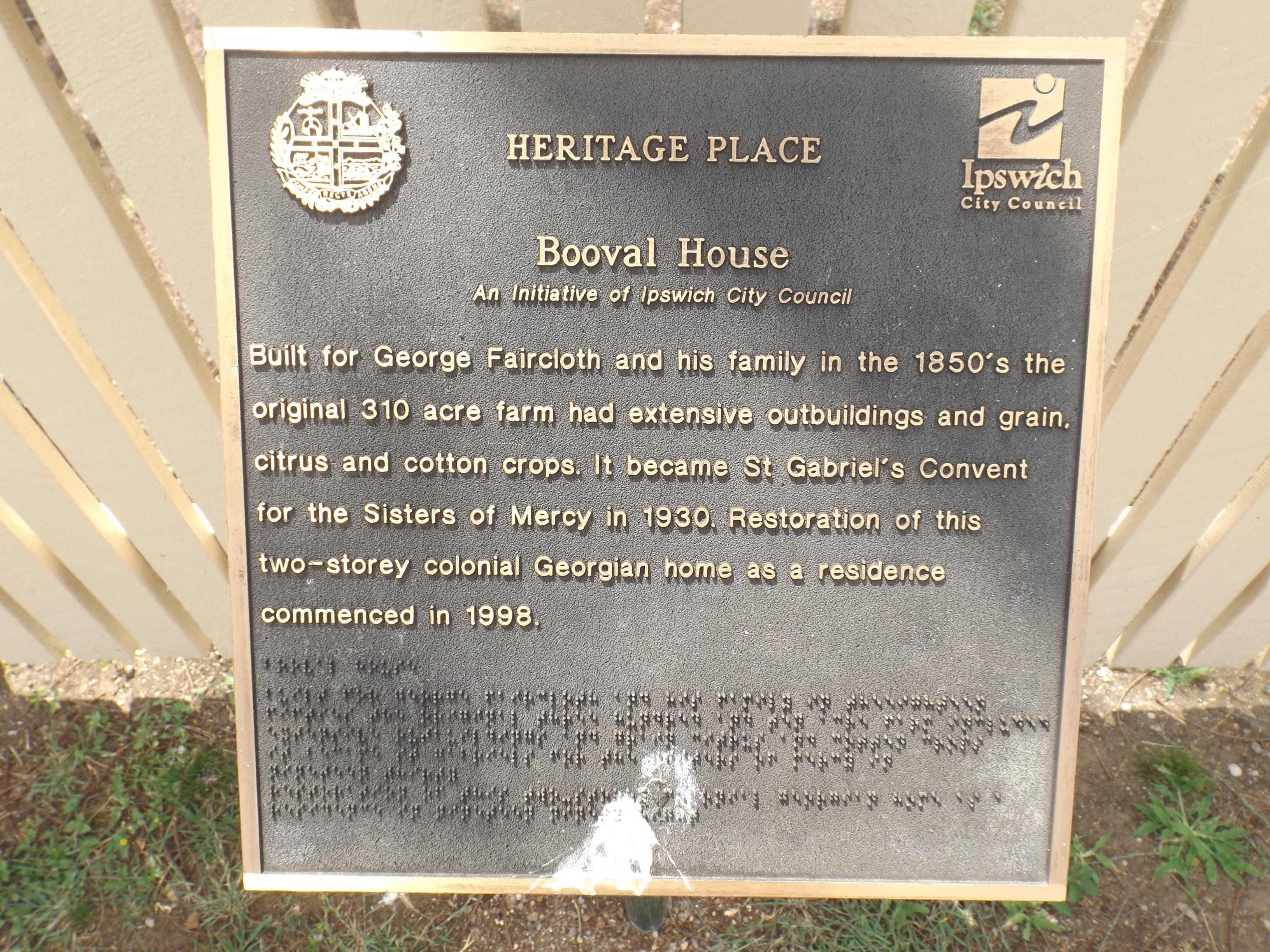 Photo of an Ipswich City Council plaque at Booval House at Booval, Ipswich, Queensland, Australia.